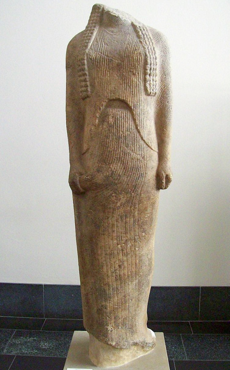 Marble statue "Ornithe", formerly part of a group with six statues, located at ancient Heraion of Samos on the way to the Temple of Hera, Greece, 560-550 BC, greek sculptor Geneleos. (Berlin inventory number Sk 1739), Pergamon Museum, Berlin